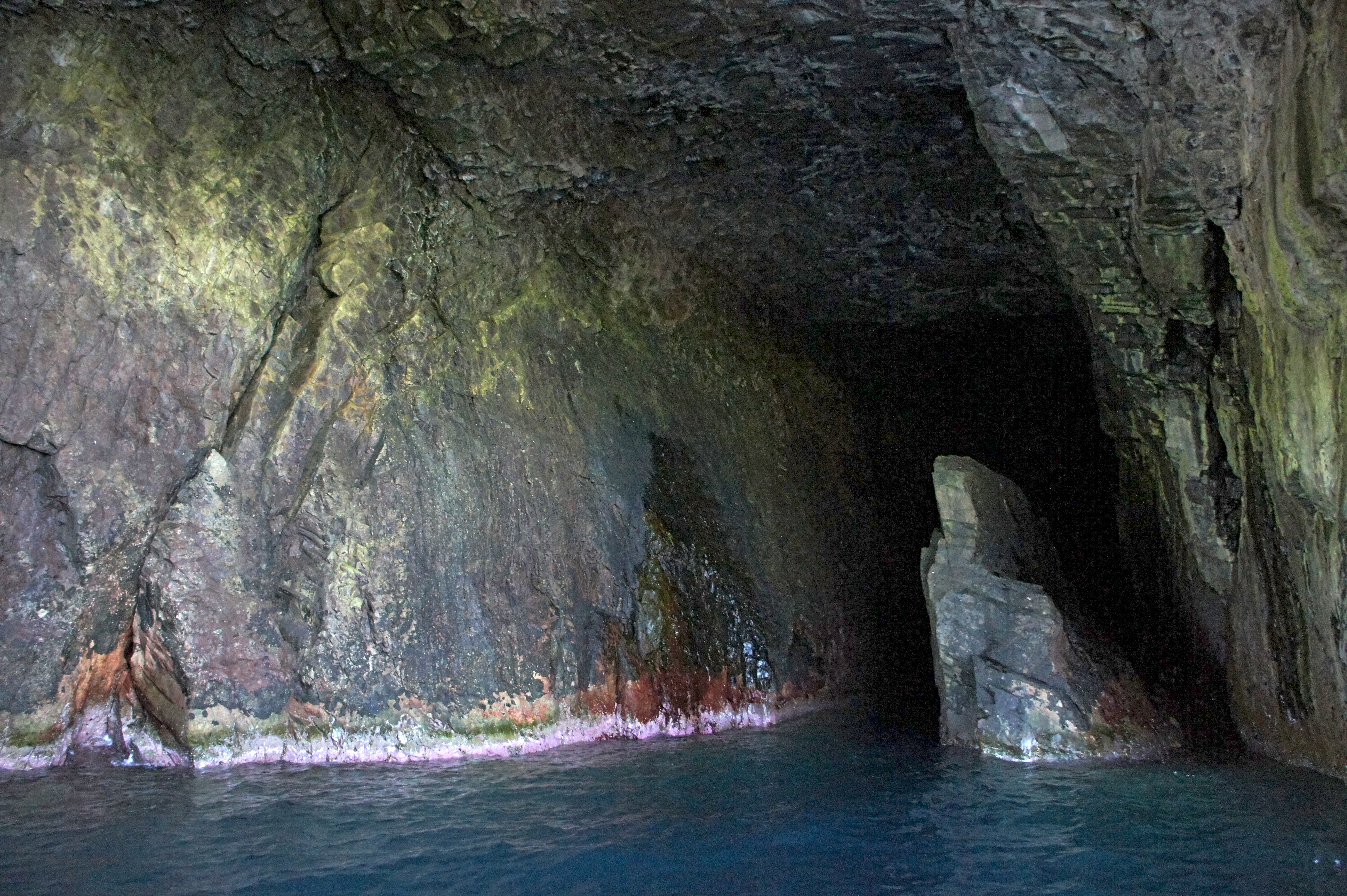 Shitaara-domon of Tajima mihonoura in Shinonsen, Hyogo prefecture, Japan